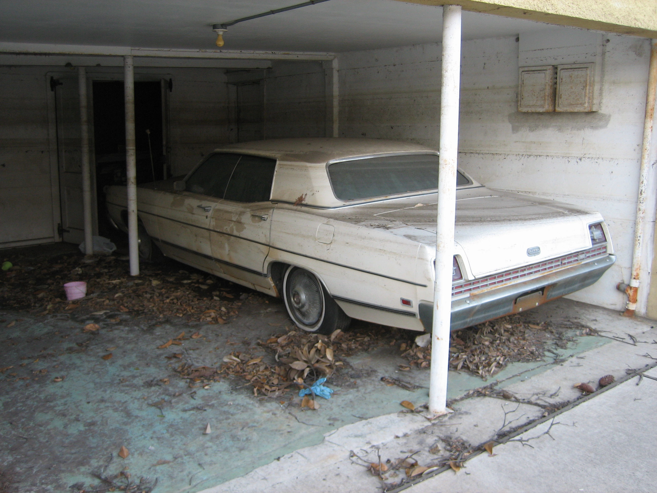 Hurricane Katrina aftermath in New Orleans: Flood damaged Broadmoor neighborhood: Garage with 1969 Ford LTD. Note flood water lines on walls.